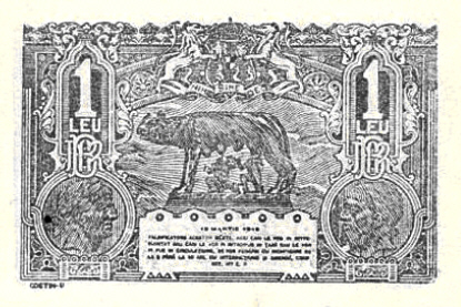 1 Romanian Leu banknote, with the portraits of Trajan and Decebalus (flanking a statue of the Lupa Capitolina)